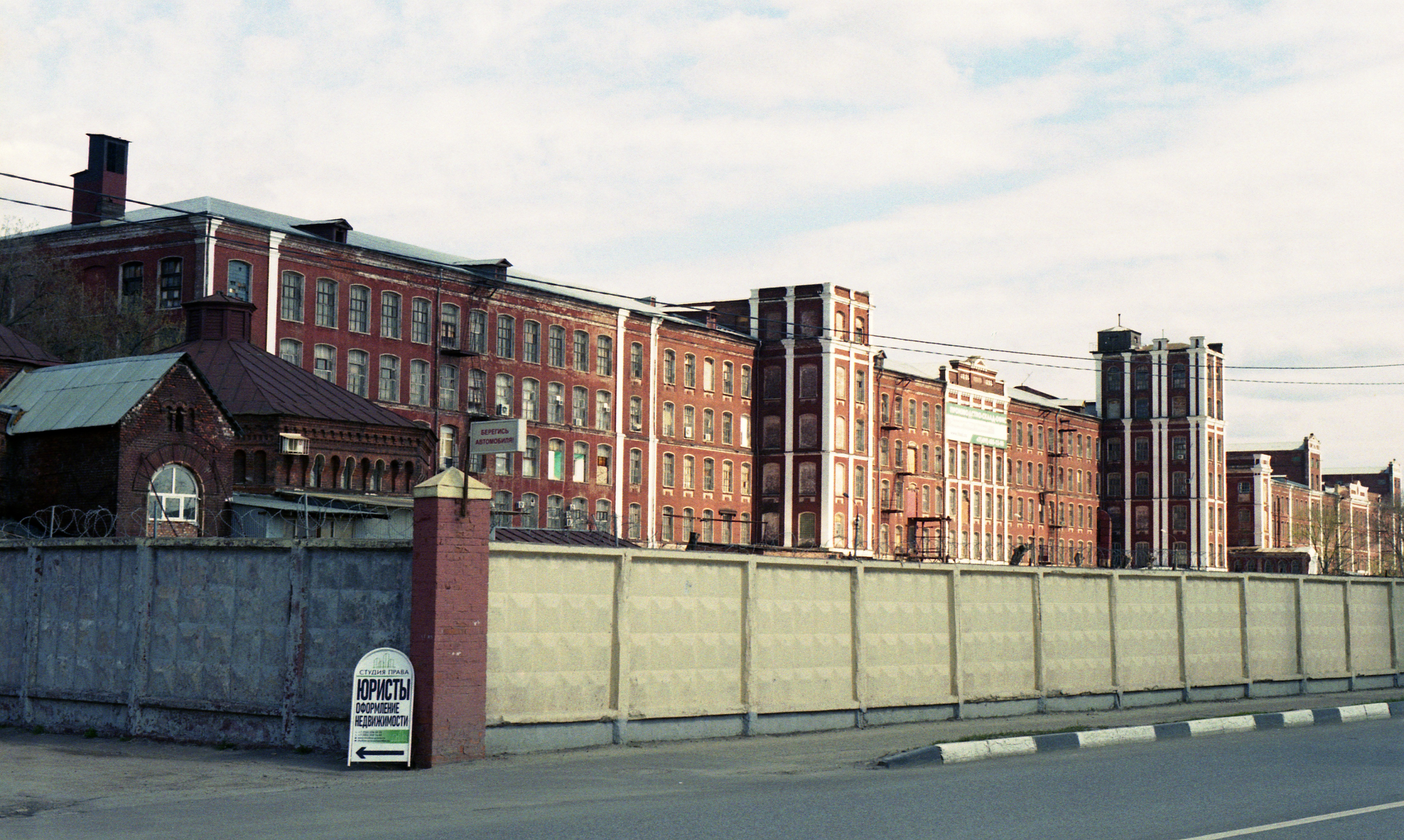 Buildings in Ramenskoye Fuji Industrial 100 Ricoh KR-10X